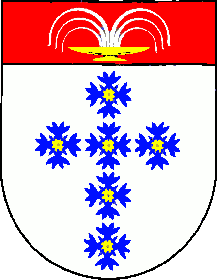 Former (1991-2009) coat of arms of the Amt (county) Bornhöved in Schleswig-Holstein, Germany.